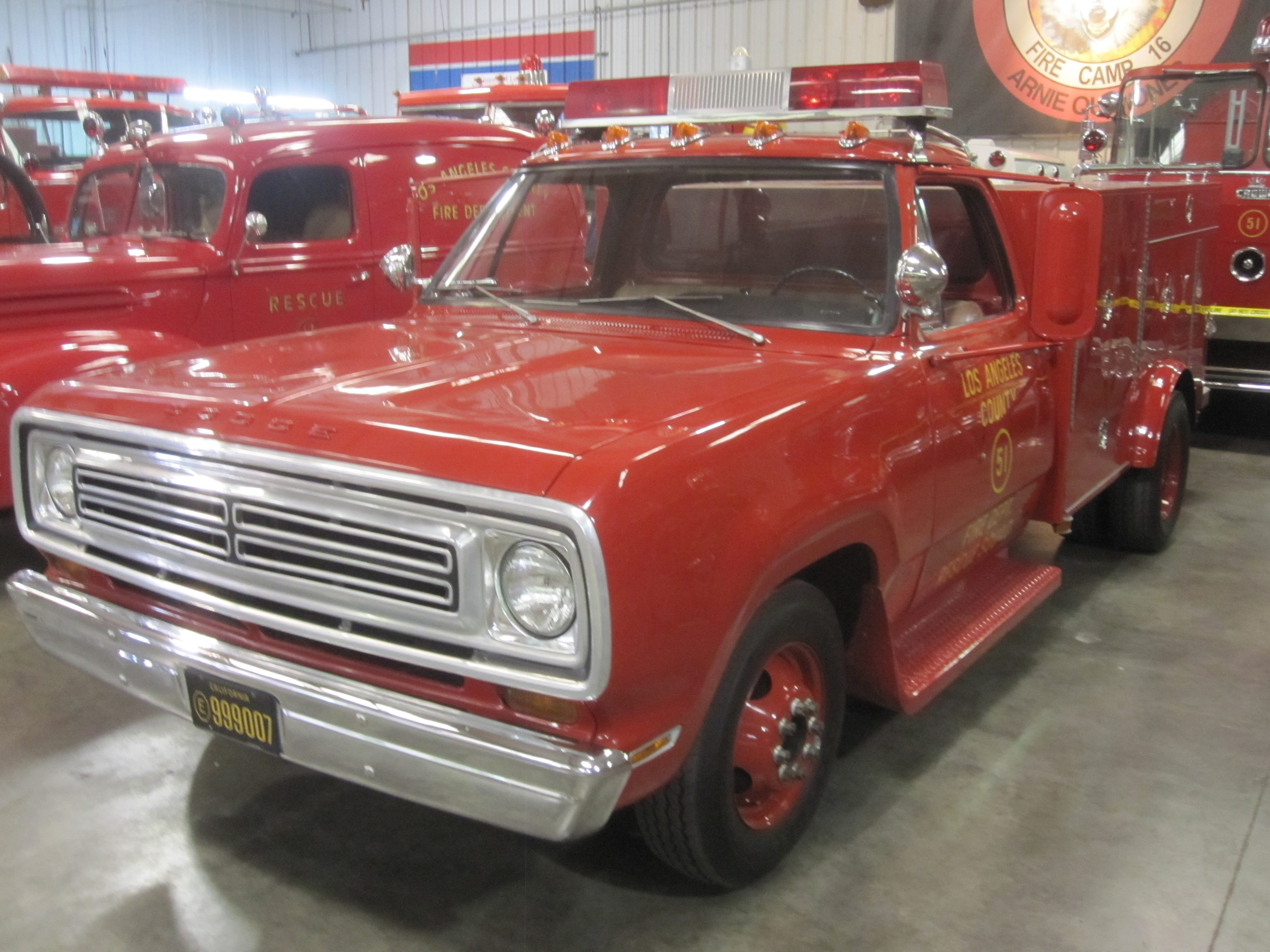 Here's the squad.